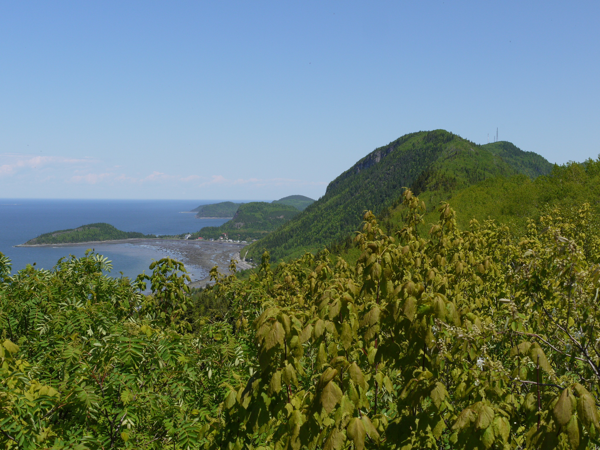 Parc national du Bic